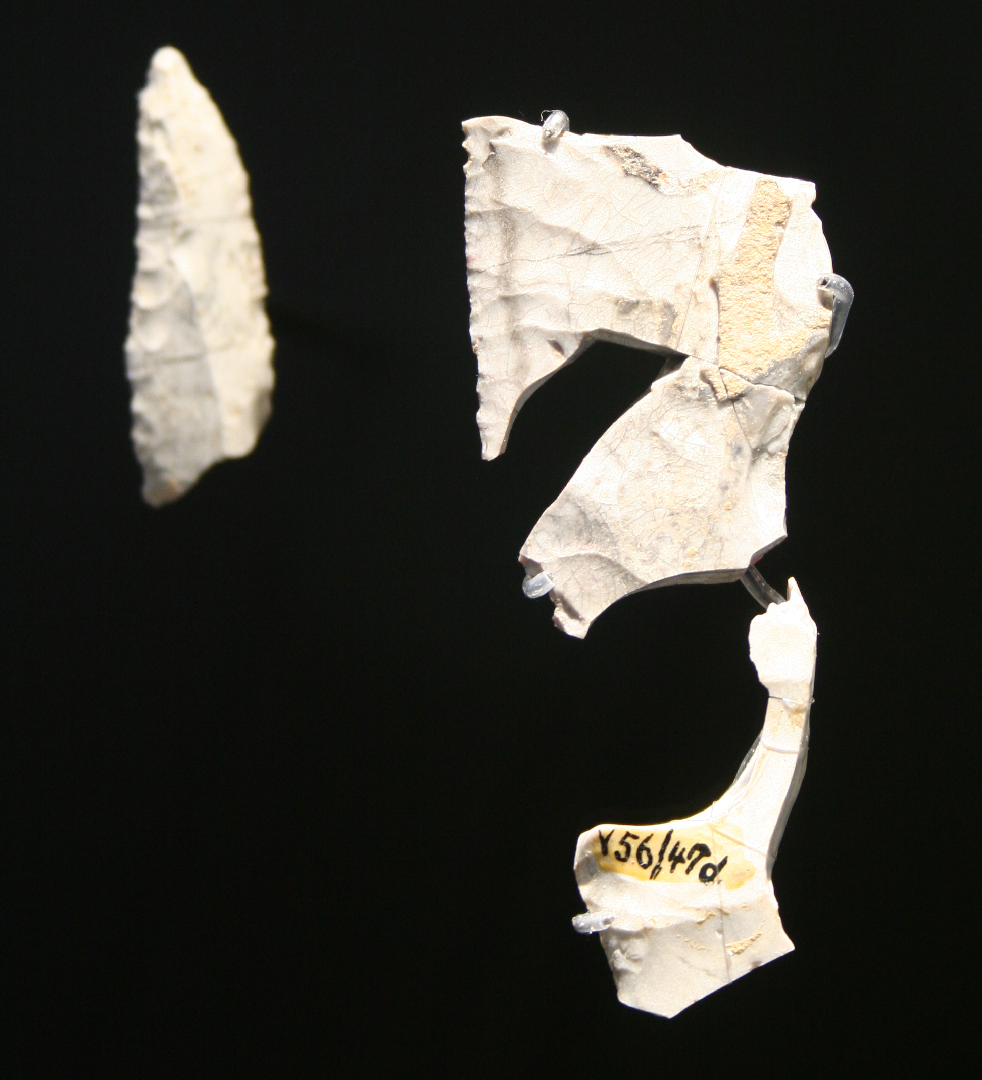 Blade and fragment of a dagger from a tomb at Unterjettingen; State museum Württemberg, Stuttgart